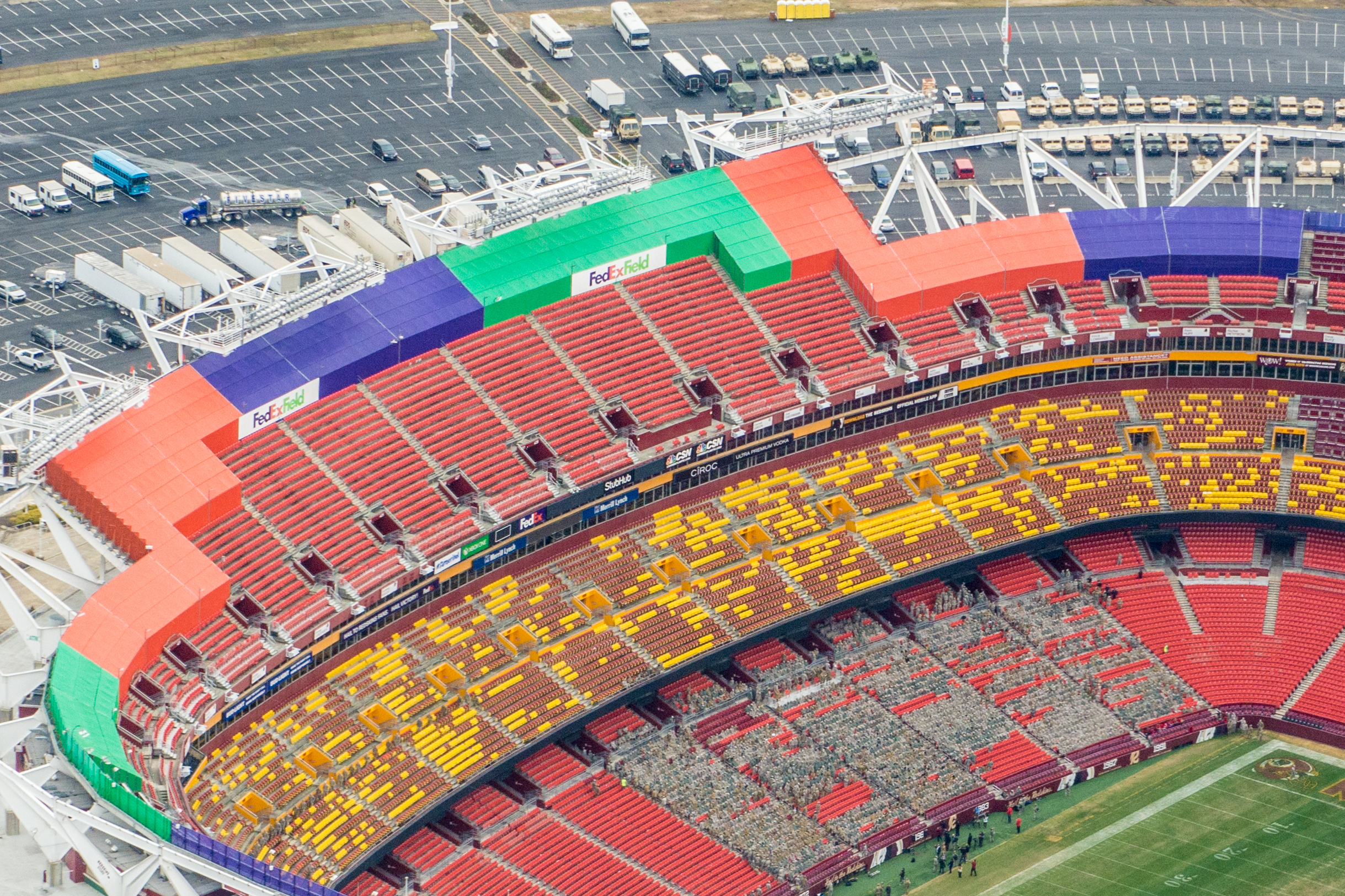 3,500 National Guardsmen were sworn-in as special deputies of the D.C. Metropolitan Police Department at FedExField for the upcoming Presidential Inauguration in Washington D.C., Jan. 19, 2017. 7,500 National Guardsmen from 44 states, three territories and the District of Columbia assigned to Joint Task Force D.C. are to provide traffic management, crowd management, security and logistics support during the inauguration period. (National Guard photo by Staff Sgt. Patrick P. Evenson, JTF-DC) Unit: DC National Guard DVIDS Tags: POTUS; swearing-in; Washington D.C.; JTF-NCR; Inauguration 2017; President Donald J. Trump; FedExField